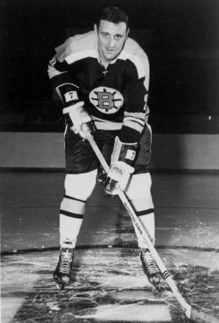 Photo of Phil Esposito as a member of the Boston Bruins.